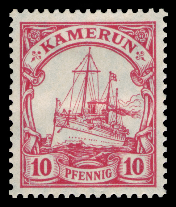 stamp series for German Colonies